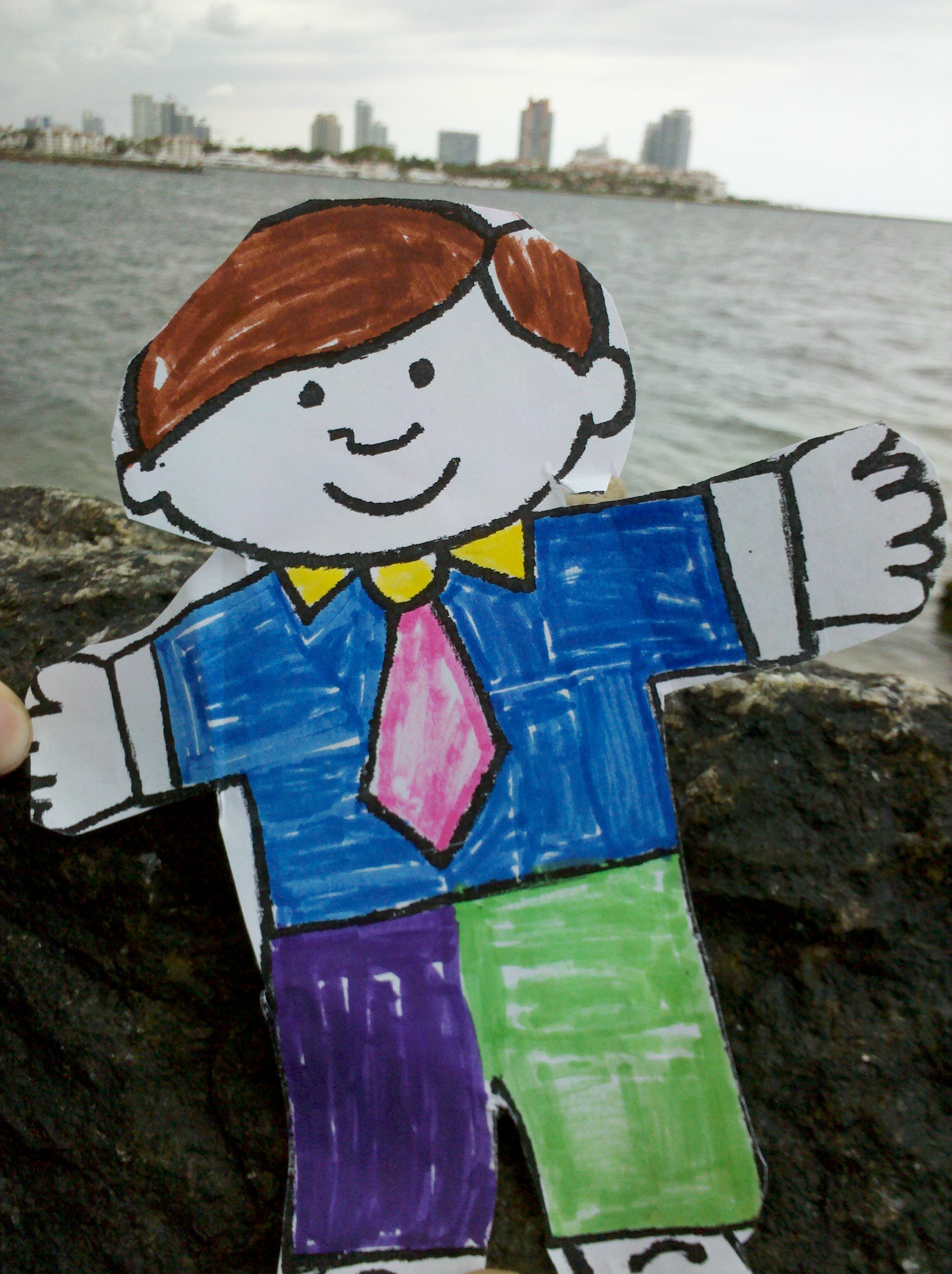 Image of Flat Stanley Project, in Miami Beach